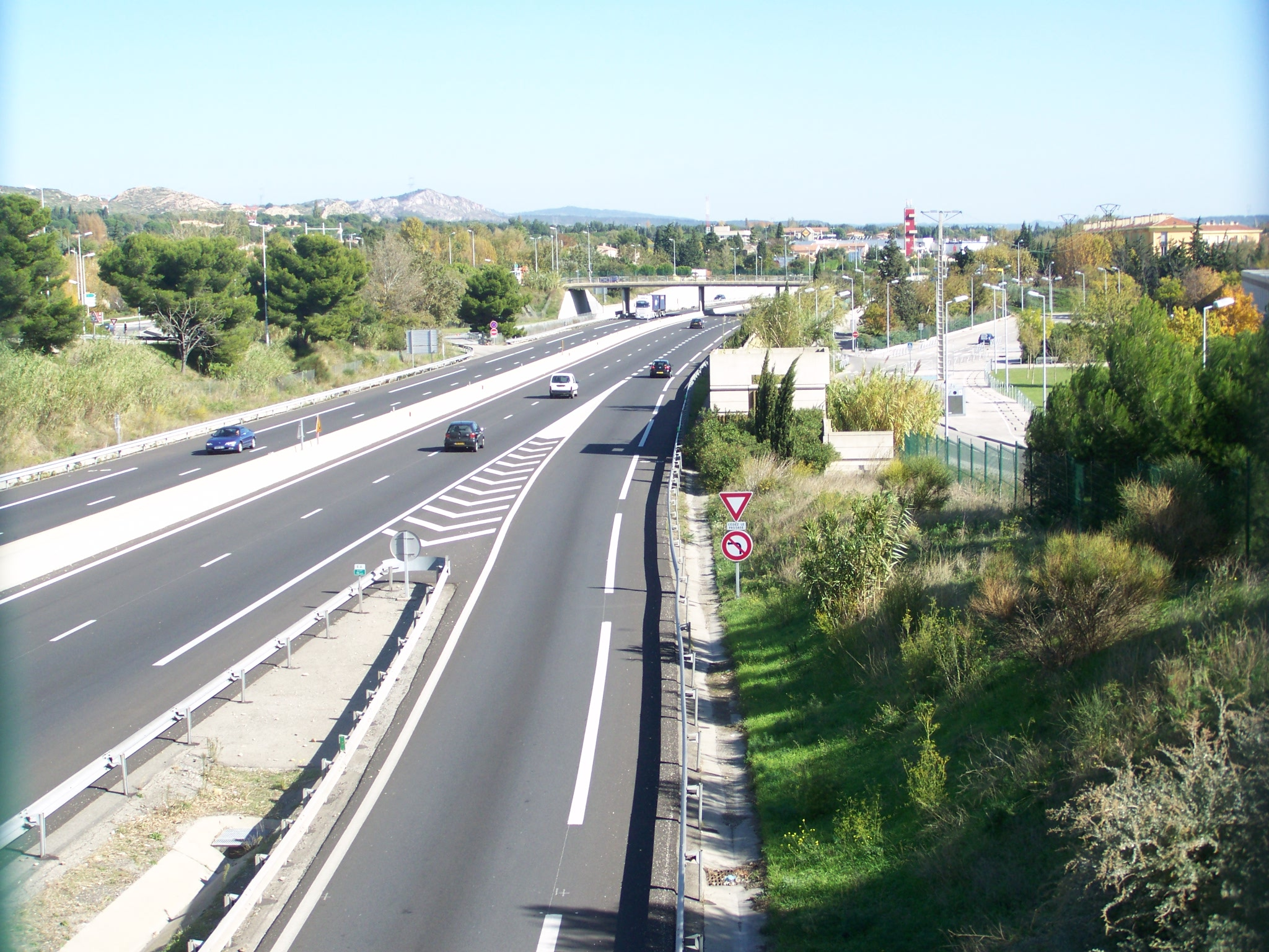 French motorway autoroute A54 at Salon-de-Provence in Bouches-du-Rhône.